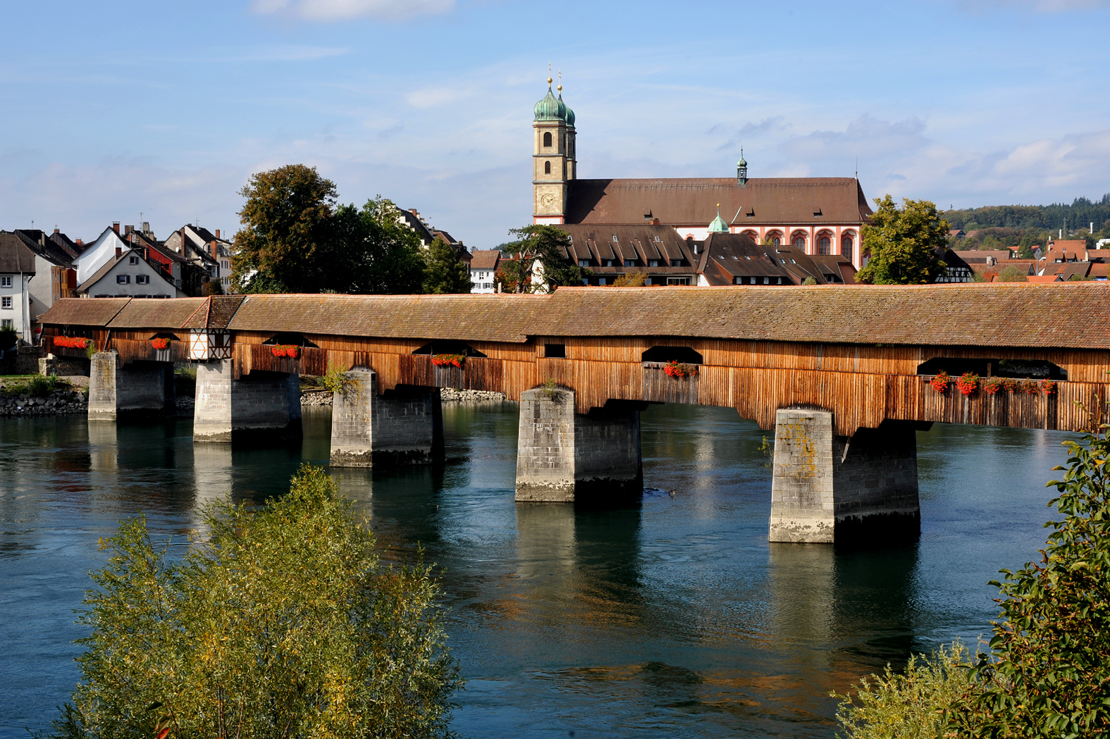 Covered wooden bridge between Stein and Bad Säckingen; Aargau, Switzerland and Baden-Württemberg, Germany